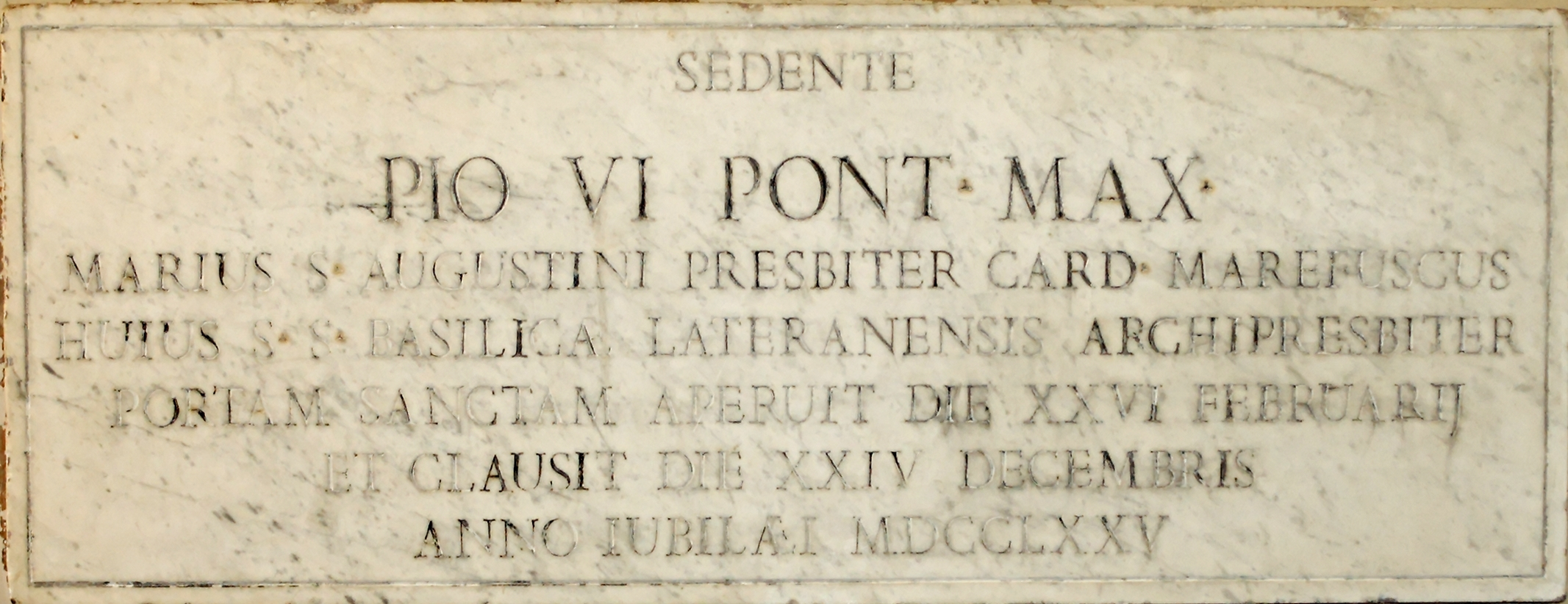 Inscription commemorating the opening and closing of the Holy Door by Pope Pius VI for the Jubilee of 1775. Cloister of the Basilica of St. John Lateran (Rome).